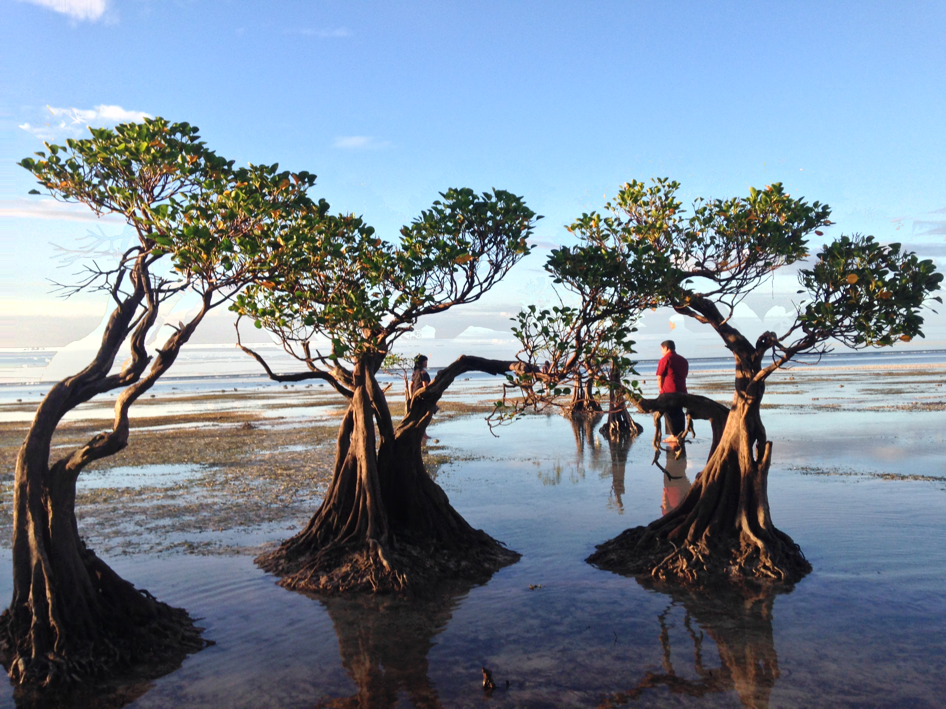 Taken at Padadita Beach, Waingapu, East Sumba, East Nusa Tenggara